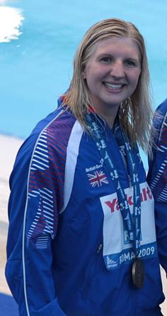 British swimmer Rebecca Adlington, bronze medallist on the 4x200 metre relay at the 2009 World Championships depicted person: Rebecca Adlington (age: 20.44)